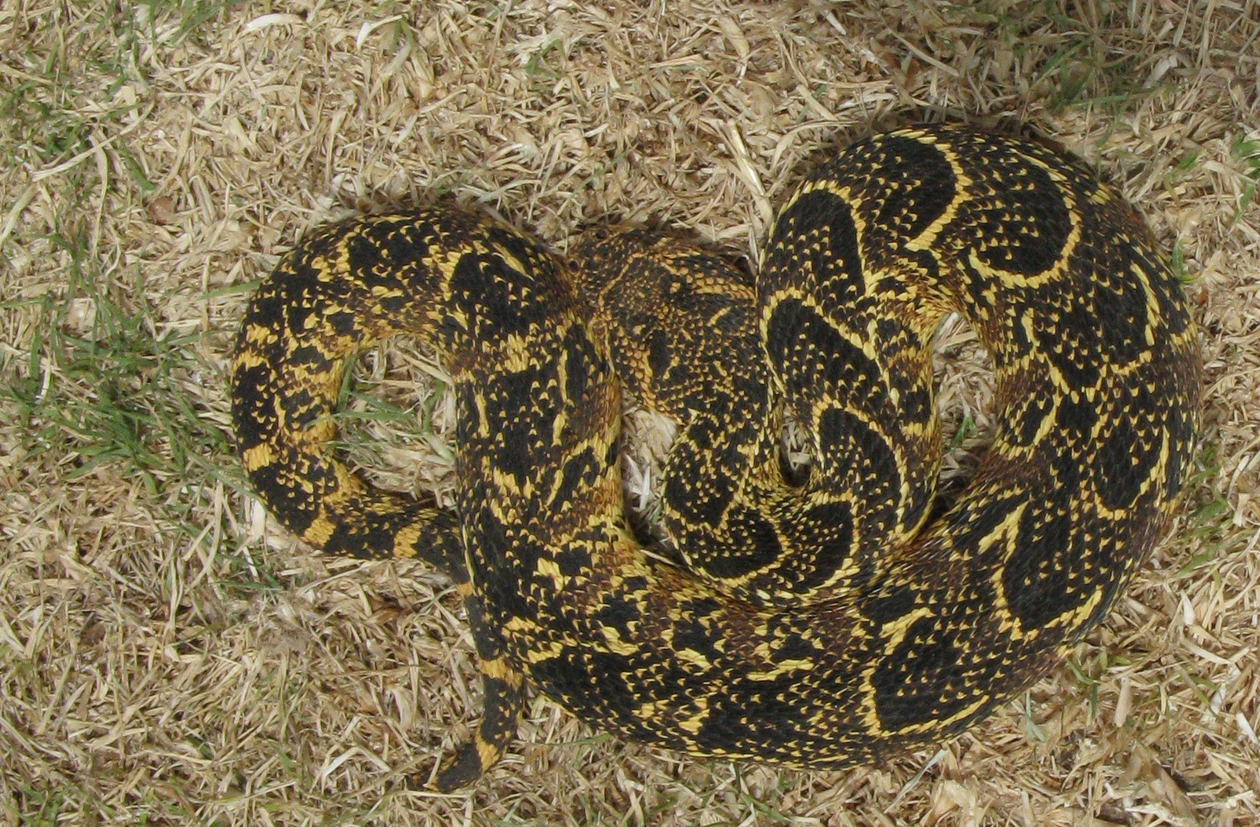 Bitis arietans coloration is variable. This puff adder is typical of the south of its range in Africa